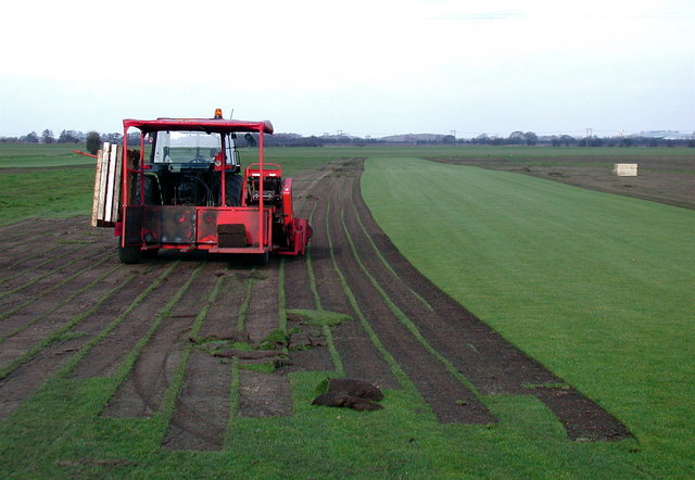 Hasholme Carr, Hasholme, East Riding of Yorkshire, England.The Lodge Lawns turf fields on the north bank of the River Foulness, looking north-northwest from the bridleway between Sand Hill Farm and Hasholme Garth. There is a ford across the river just east of here on Ordnance Survey maps but this has been replaced by a farm bridge.